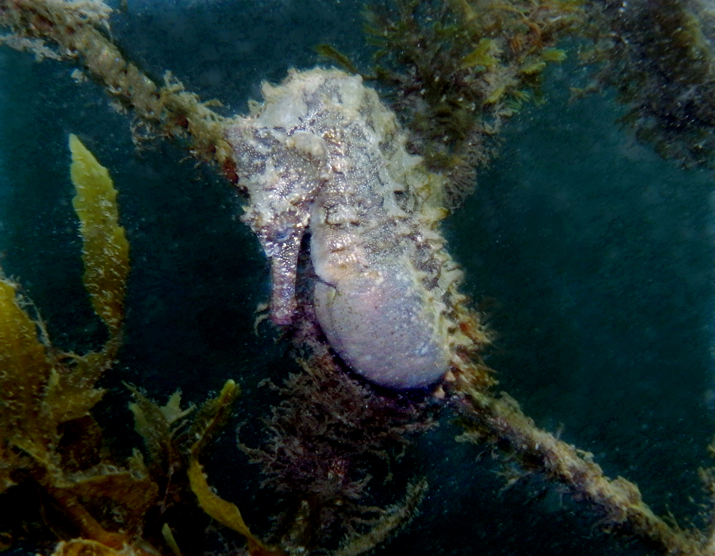 schwangeres Whites Seepferdchen Männchen at the shark net at Watsons Bay, Sydney, NSW Size: up to 20cm, on the picture: 15cm Diet: Crustaceans Discovered: 1855, Bleeker